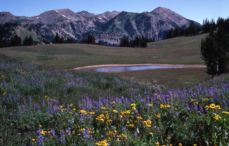 South Fork of Granite Canyon, Grand Teton National Park